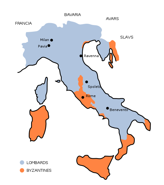 Map of Lombard Kingdom after Aistulf's conquests (751 AD) - Italian version - according to Paulus the Deacon's Historia Langobardorum, Lidia Capo ed., Mondadori, Milan 1992.